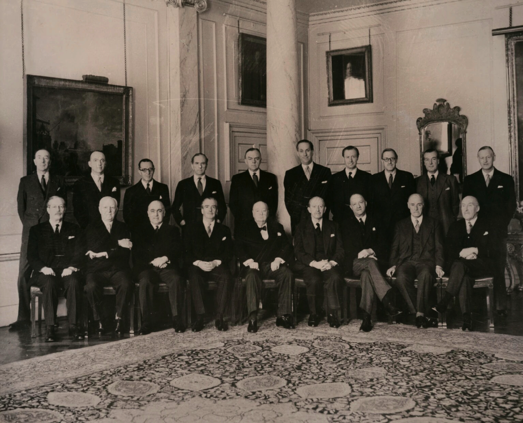 Prime Minister Winston Churchill's 1955 cabinet. Back row Osbert Peake, Minister of Pensions George Edward Peter Thorneycroft, President of the Board of Trade Walter Turner Monckton, Minister of Labour and National Service The Hon. James Gray Stuart, Secretary of State for Scotland Gwilym Lloyd George, Home Secretary and Secretary of State for Welsh Affairs, Alan Tindal Lennox-Boyd, Secretary of State for the Colonies Edwin Duncan Sandys, Minister of Housing and Local Government Derick Heathcoat Amory, Minister of Agriculture, Fisheries and Food Sir David McAdam Eccles, Minister of Education Norman Craven Brook, Cabinet Secretary Front row Maurice Harold Macmillan, Minister of Defence Frederick James Marquis, 1st Earl of Woolton, Minister of Materials and Chancellor of the Duchy of Lancaster David Patrick Maxwell Fyfe, Viscount Kilmuir, Lord Chancellor Sir Robert Anthony Eden, Foreign Secretary Sir Winston Leonard Spencer-Churchill, Prime Minister Robert Arthur James Gascoyne-Cecil, 5th Marquess of Salisbury, Leader of the House of Lords R. A. Butler, Chancellor of the Exchequer Philip Cunliffe-Lister, Secretary of State for Commonwealth Relations Henry Frederick Comfort Crookshank, Lord Privy Seal and Leader of the House of Commons